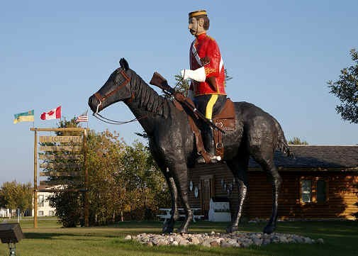 Redvers Mountie 2